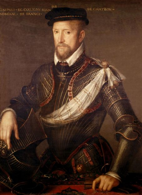 Gaspard II of Coligny (1519-1572), Admiral of France (16th century), oil on canvas, 72 x 99 cm, Bibliotheque de l'Histoire du Protestantisme, Paris